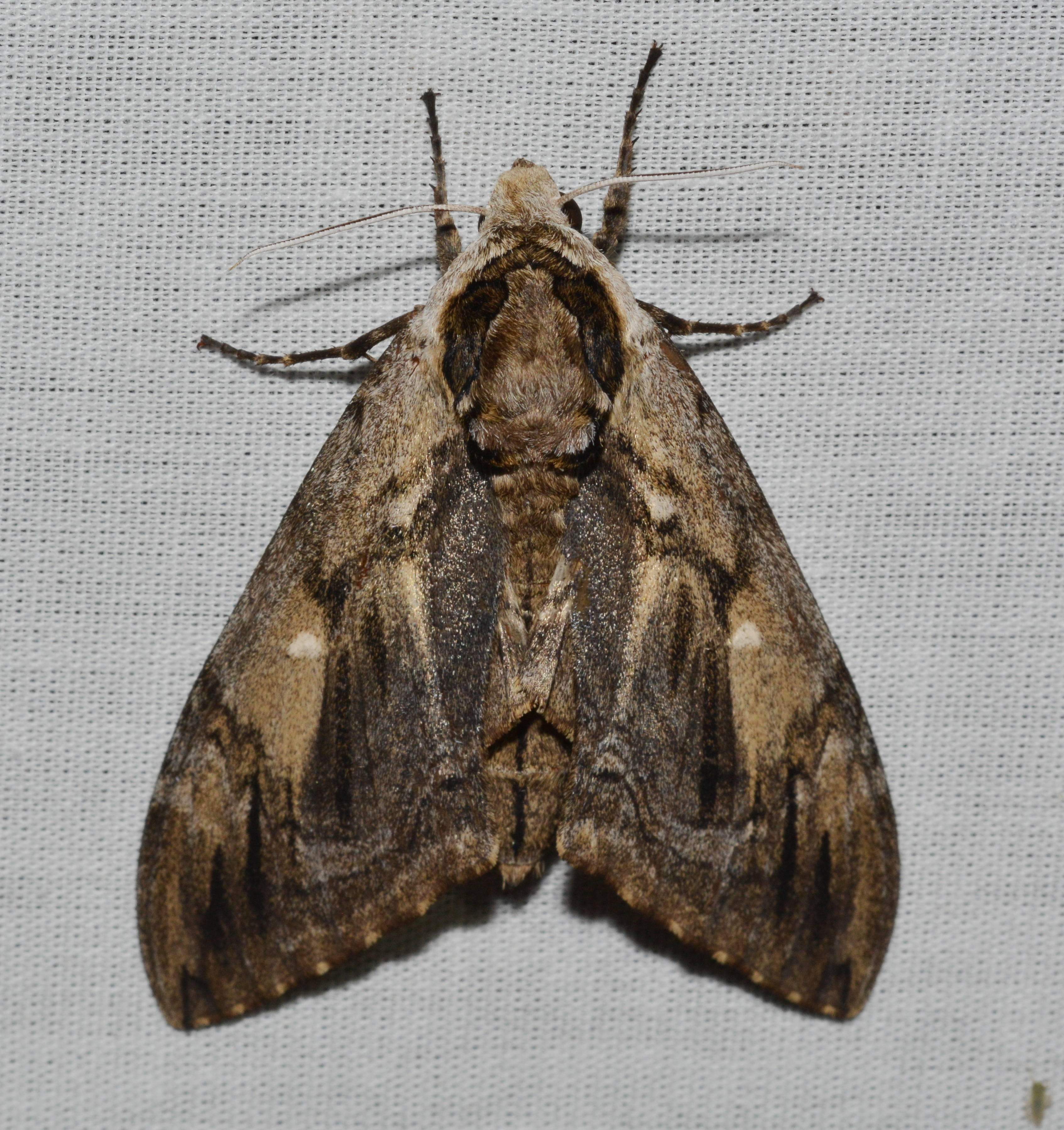 Mothing at home